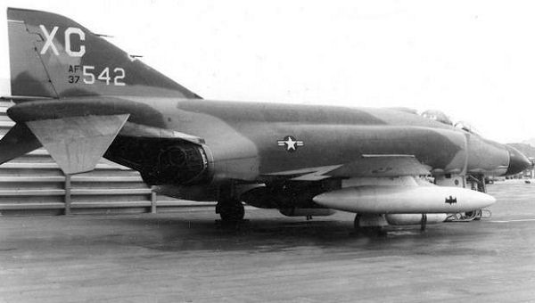 F-4C Serial 63-7542 557th Tactical Fighter Squadron/12th Tactical Fighter Wing at Cam Ranh Air Base, South Vietnam.